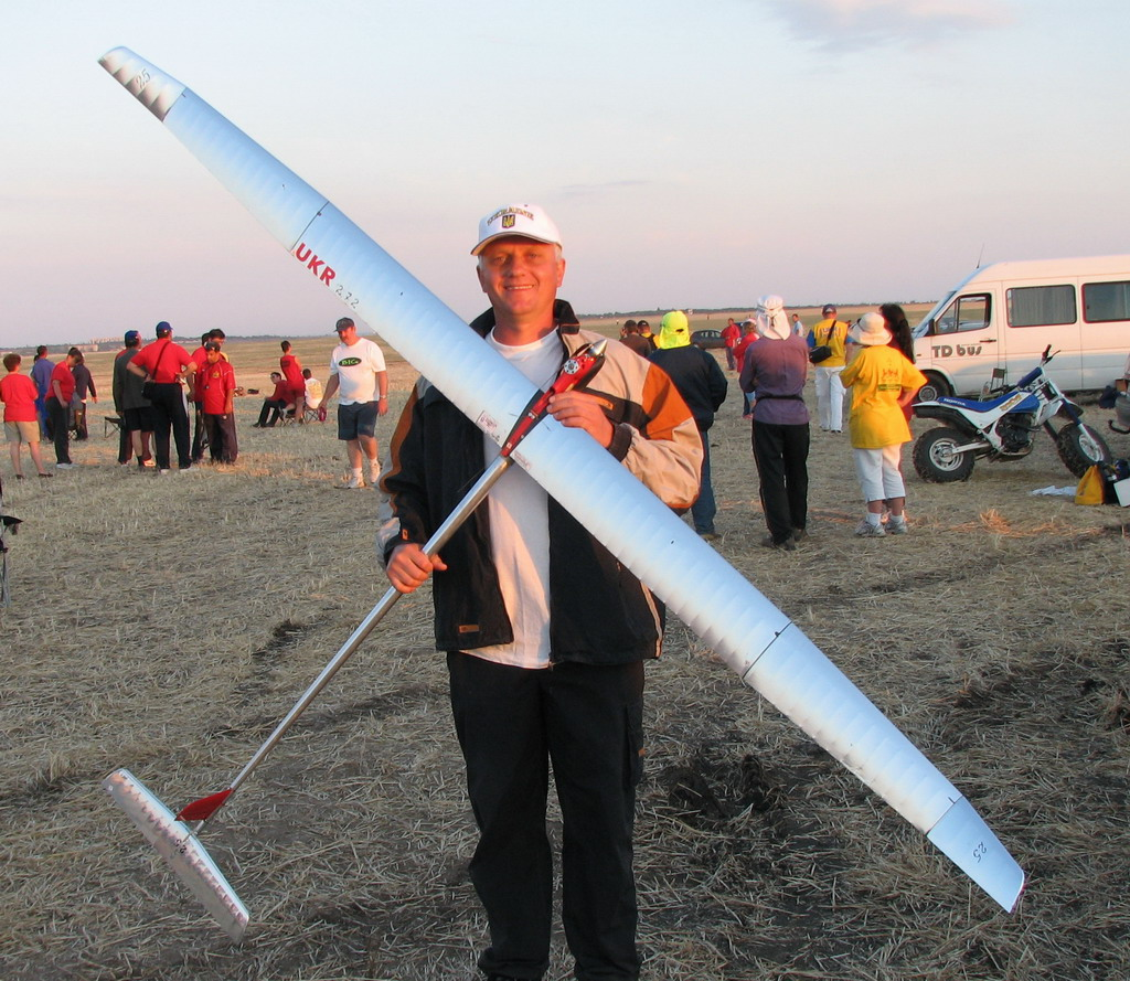 World Championship 2007 Odessa Ukraine Oleg Kulakovsky holding Eugene VERBITSKY's model (WC)